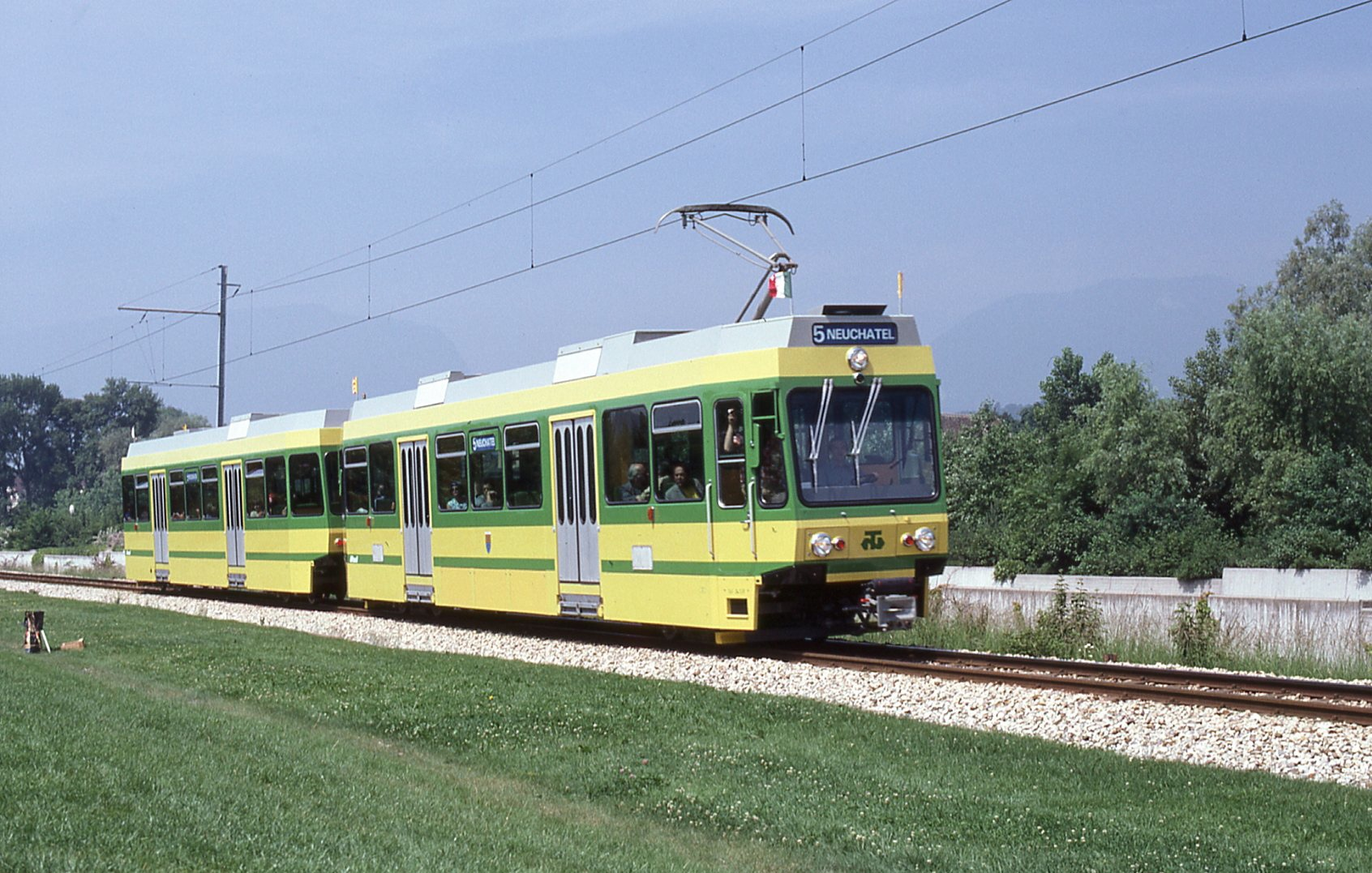 A 1981 SWS-built tramset (motored car plus control trailer) inbound from Boudry on Neuchâtel line 5 in the 1980s.